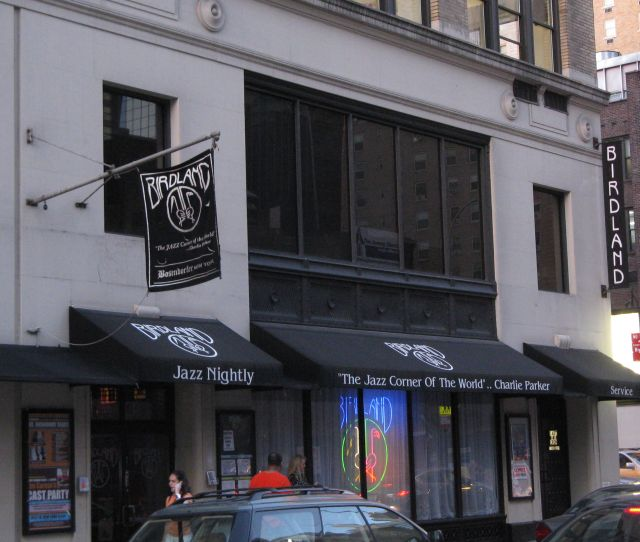 Birdland